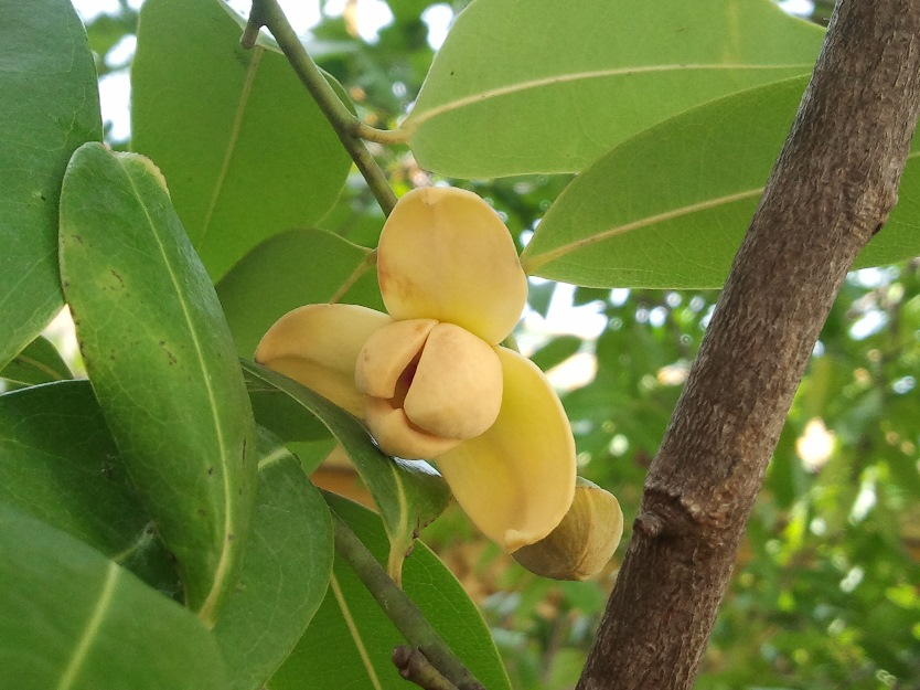 Rumdoul, Mitrella mesnyi